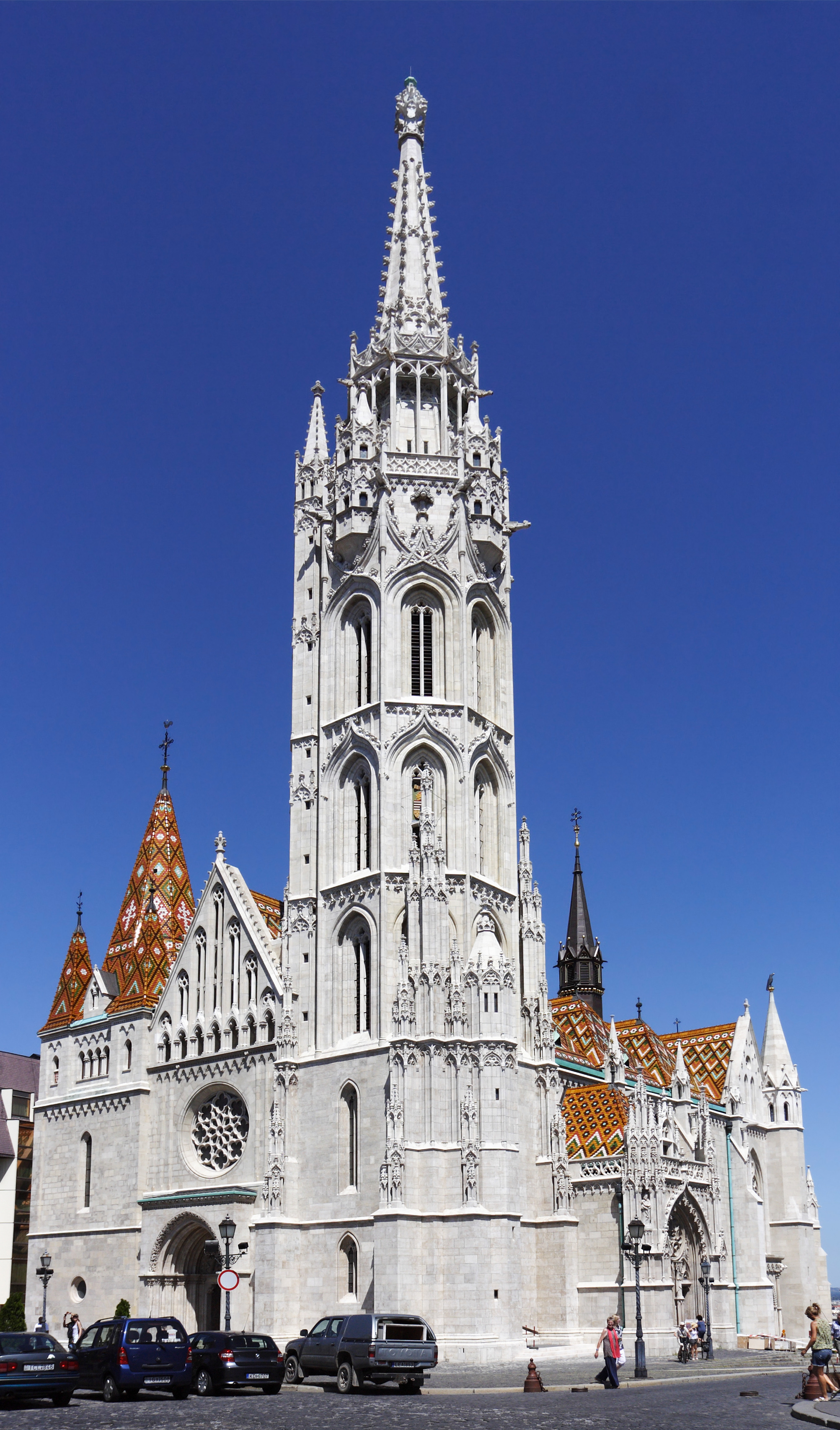 Exterior of the Matthias Church in Budapest. Taken with a Canon 350D and Canon EF-S 17-55.